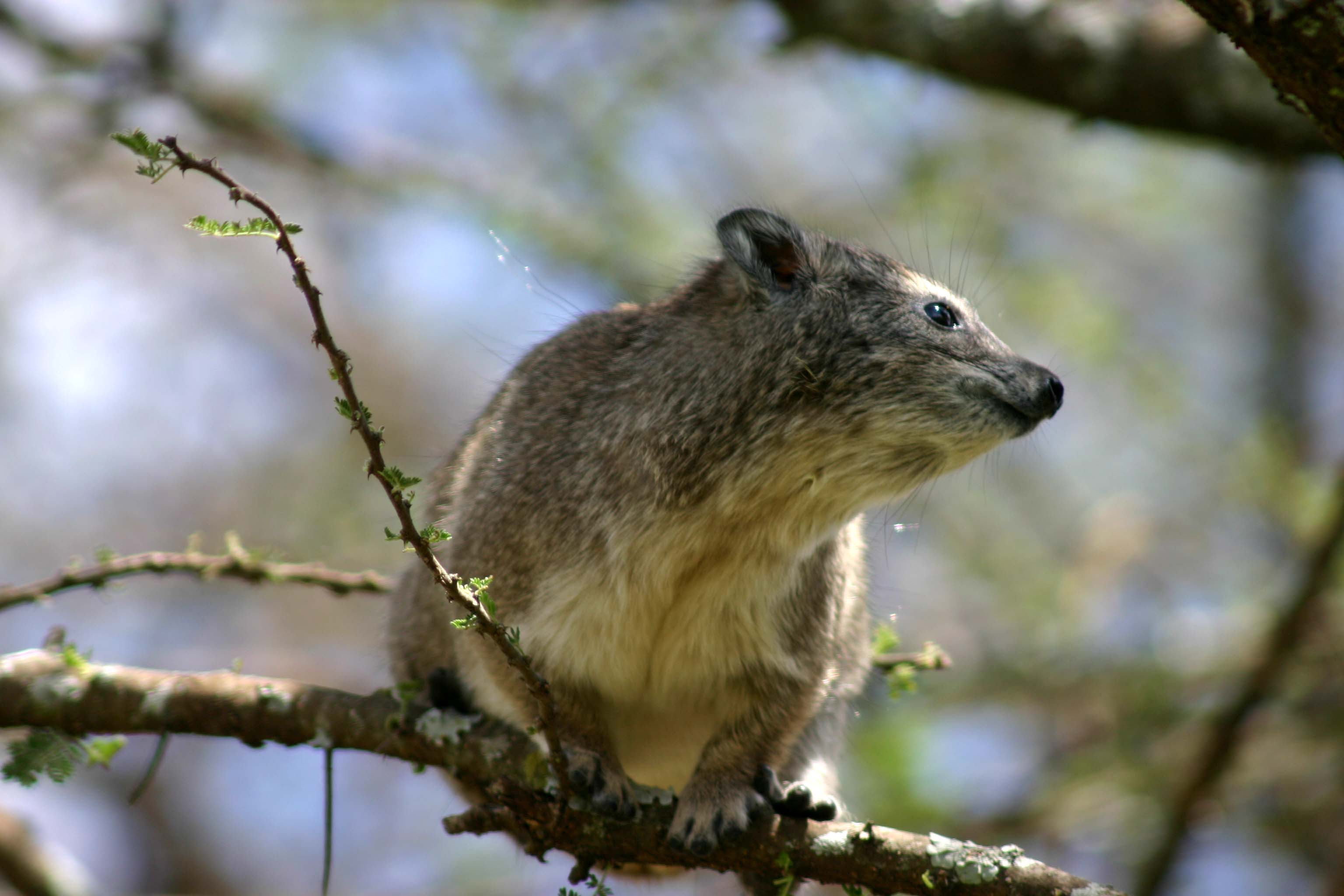 Southern tree hyrax (Dendrohyrax arboreus), Tanzania